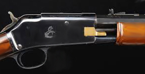 Colt Light .22 Receiver